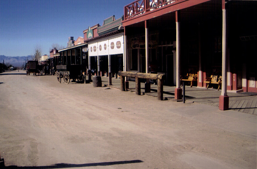 Allen Street in Tombstone, Arizona. This street is located within the Tombstone Historic District listed in the National Register of Historic Places, ref: 66000171